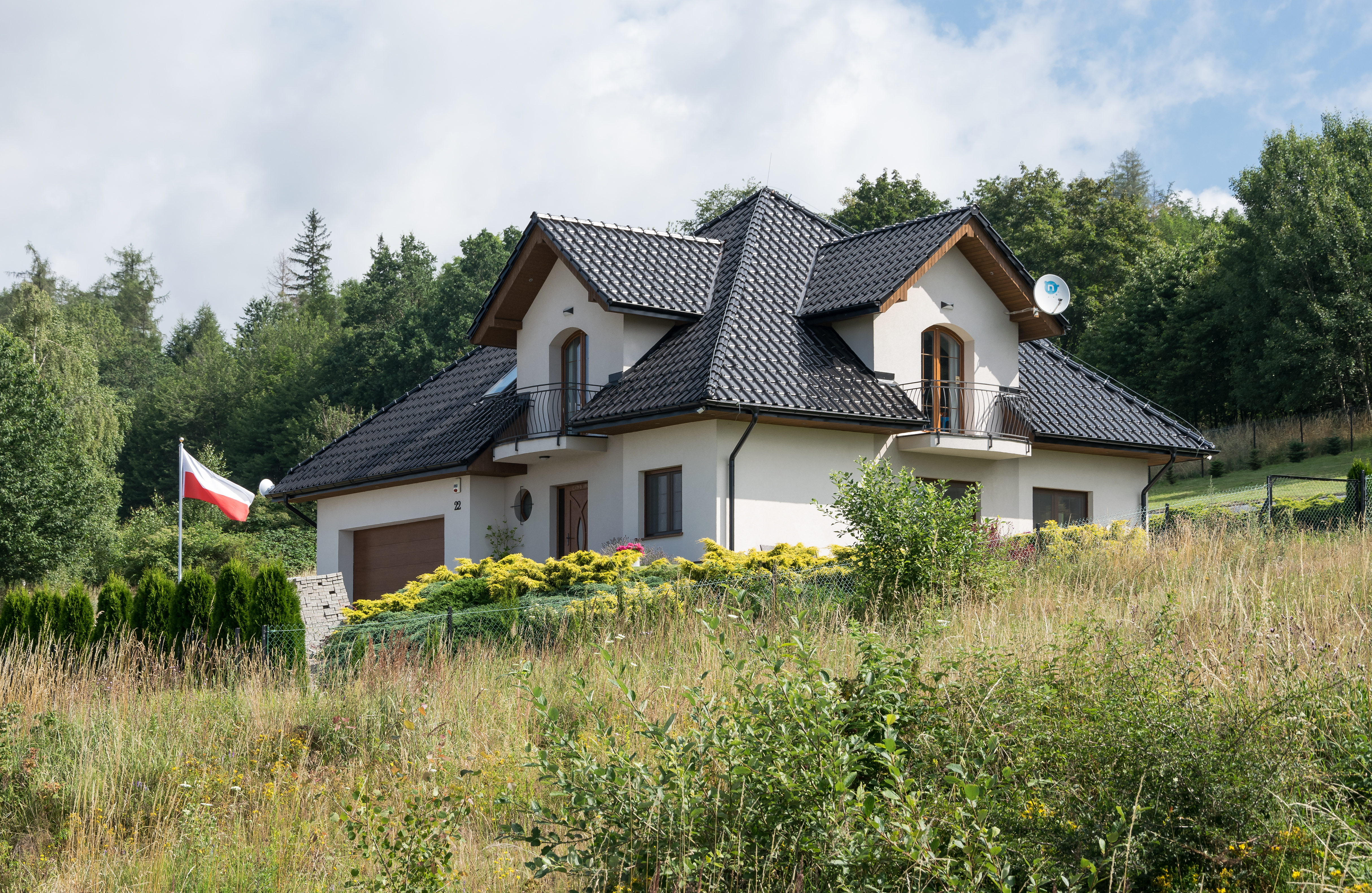 House No. 22 in Jaszkówka